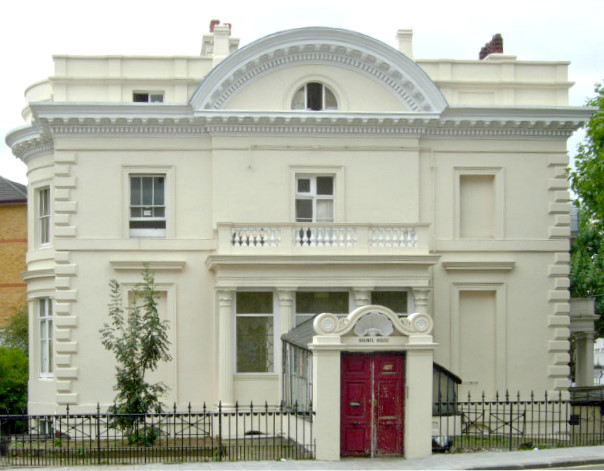 Brunel House, Paddington There are any number of buildings called Brunel House; this may be the original. It was built in the 1840s in an italianate style on the corner of Westbourne Terrace and Orsett Terrace, and is reputed to have been Brunel's London home. Today it is a grade II listed building and has now been converted into four flats